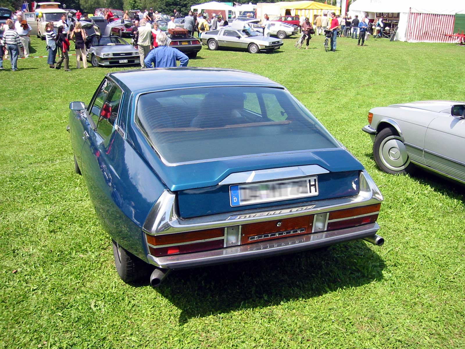 Citroën SM